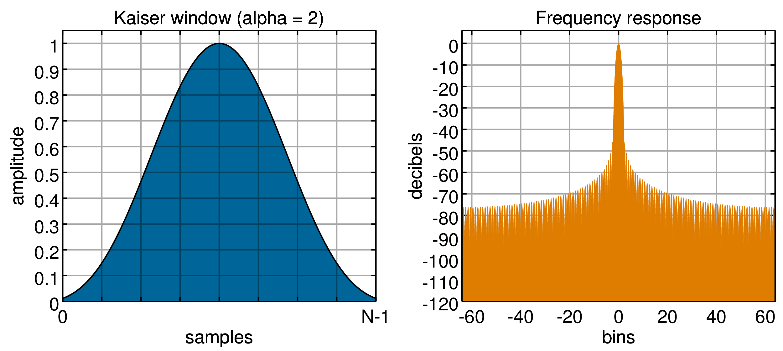 Kaiser window and frequency response for alpha = 2